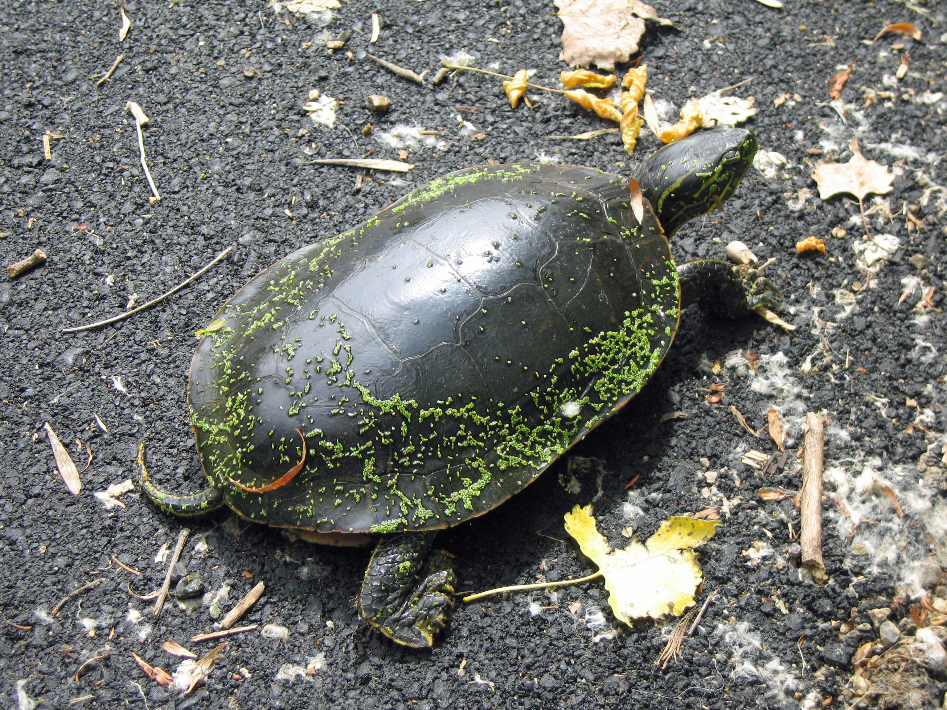 Wild painted turtle in Redding California (non-native, invasive species).